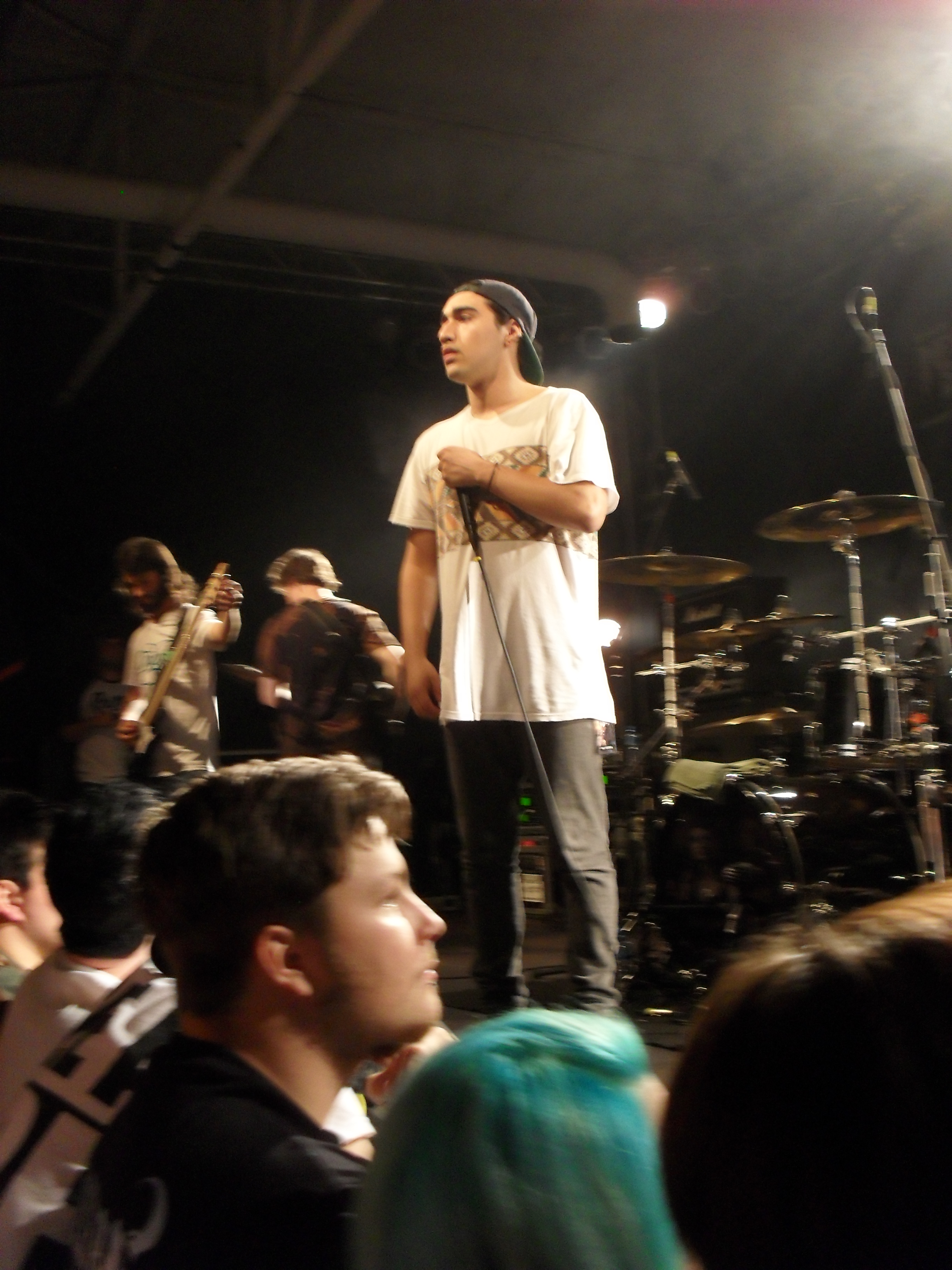 Vocalist Adrian Fitipaldes of Northlane during their set at Impericon Never Say Die! Tour 2013 at Essigfabrik in Cologne.